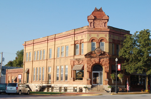 State Bank of Holton